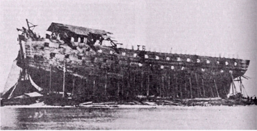 The incomplete United States Navy ship-of-the-line USS New Orleans on the building ways